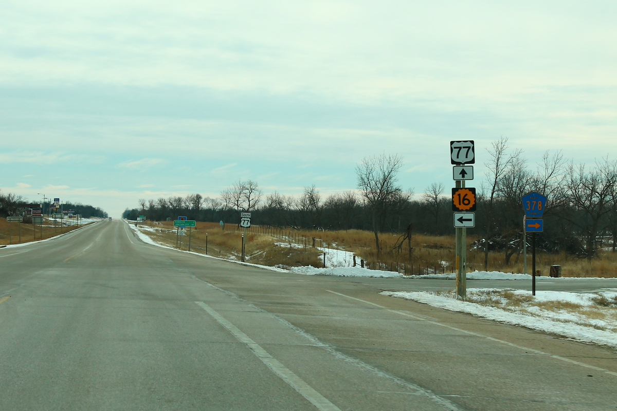 US77sRoad-KS16LeftCR378RightSigns